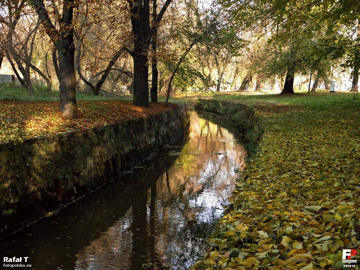 Mleczna River in Old Garden, Radom, Poland